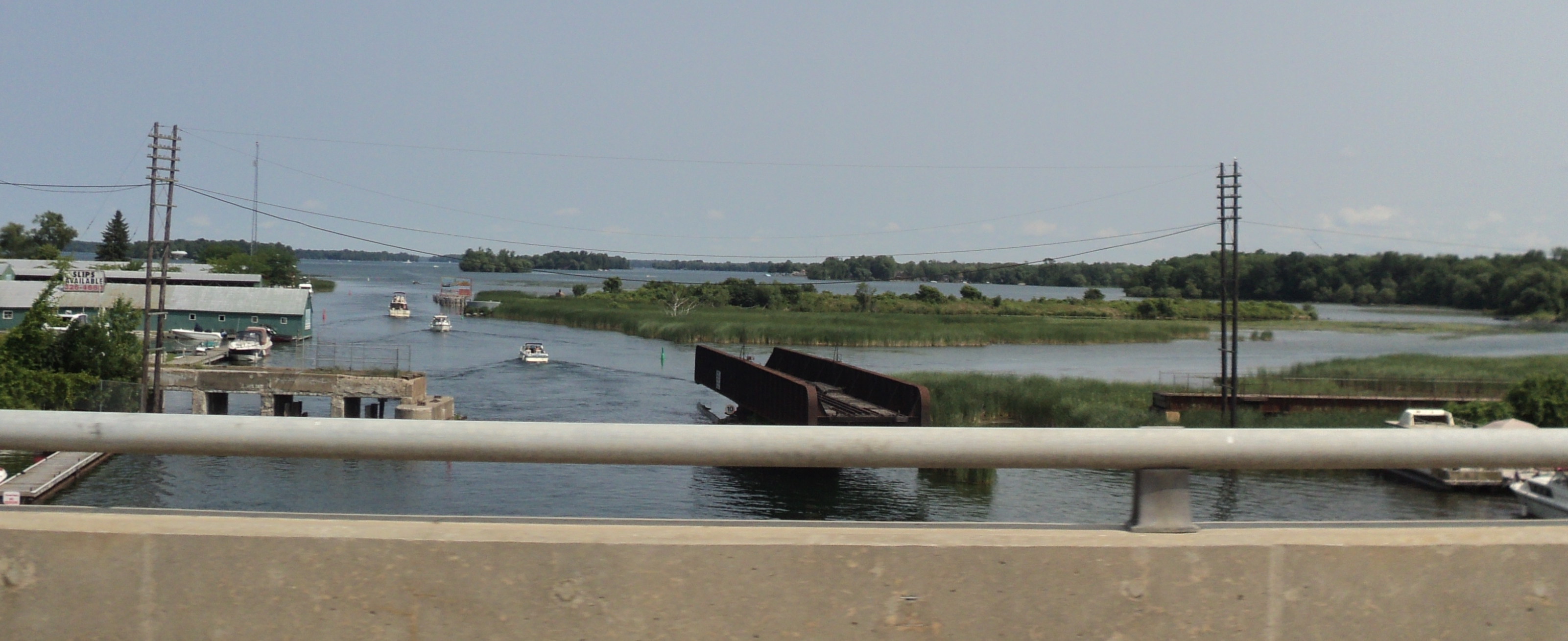 View of the Atherley Narrows Swing Bridge, taken from the Highway 12 traffic bridge over the water.